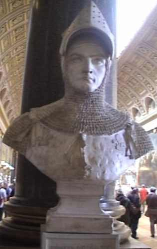 Hugues Quieret, battles gallery, Versailles castle, France